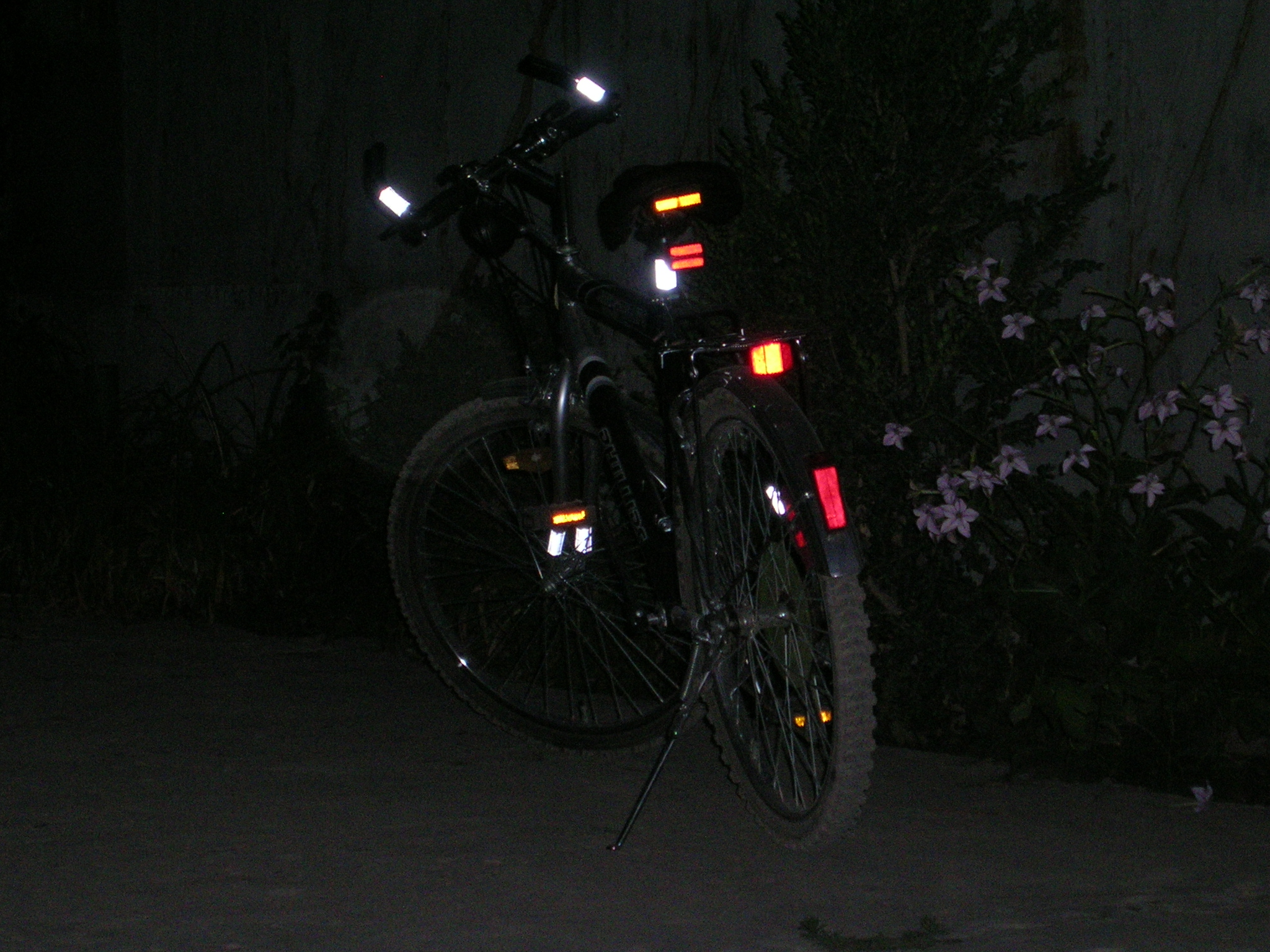 Safety devices on bicycle